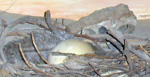 Dodo (Raphus cucullatus) replica egg (real egg is in storage at the museum), East London Museum, South Africa.